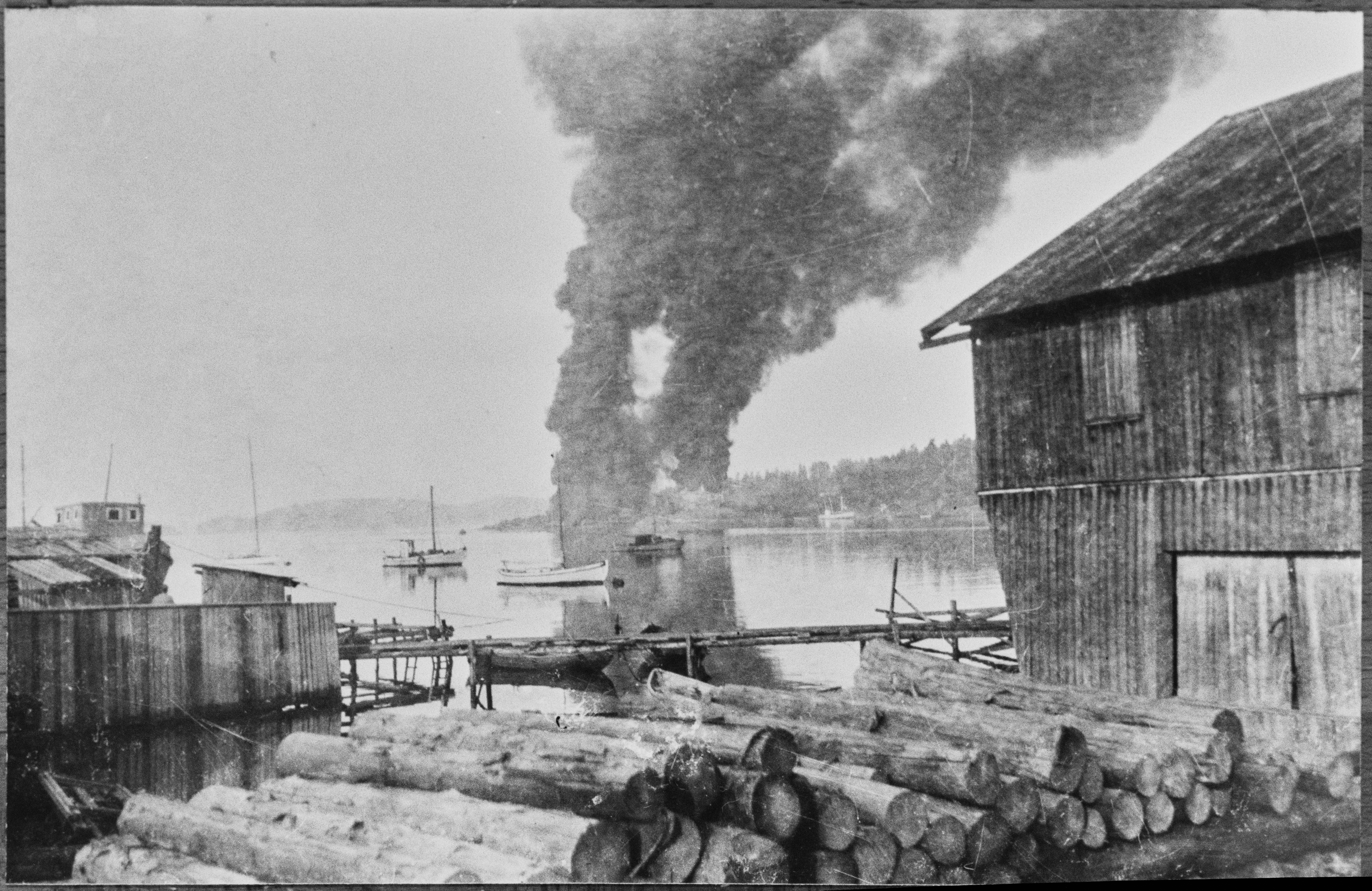 De to brennende oljetanker lå på Laksa petroleumsanlegg ved Son. Ble satt i brann ved en sabotasjeaksjon foretatt av mannskaper fra Milorg. D 111.1 og D 111.3 den 18. august 1944 kl. 02.45. Aksjonen var ledd i en landsomfattende plan for destruksjon av olje og bensin. Hver av de to tanker kunne romme ca. 15.000 tonn. Den ene tanken inneholdt ved sprengningen ca. 2.000 solarolje og den andre ca. 1.500 tonn "foul" olje (brendselsolje). Aksjonen var 100% vellykket.